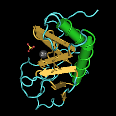 3D structure of the signaling domain, or N-terminal domain of the murine hedgehog protein